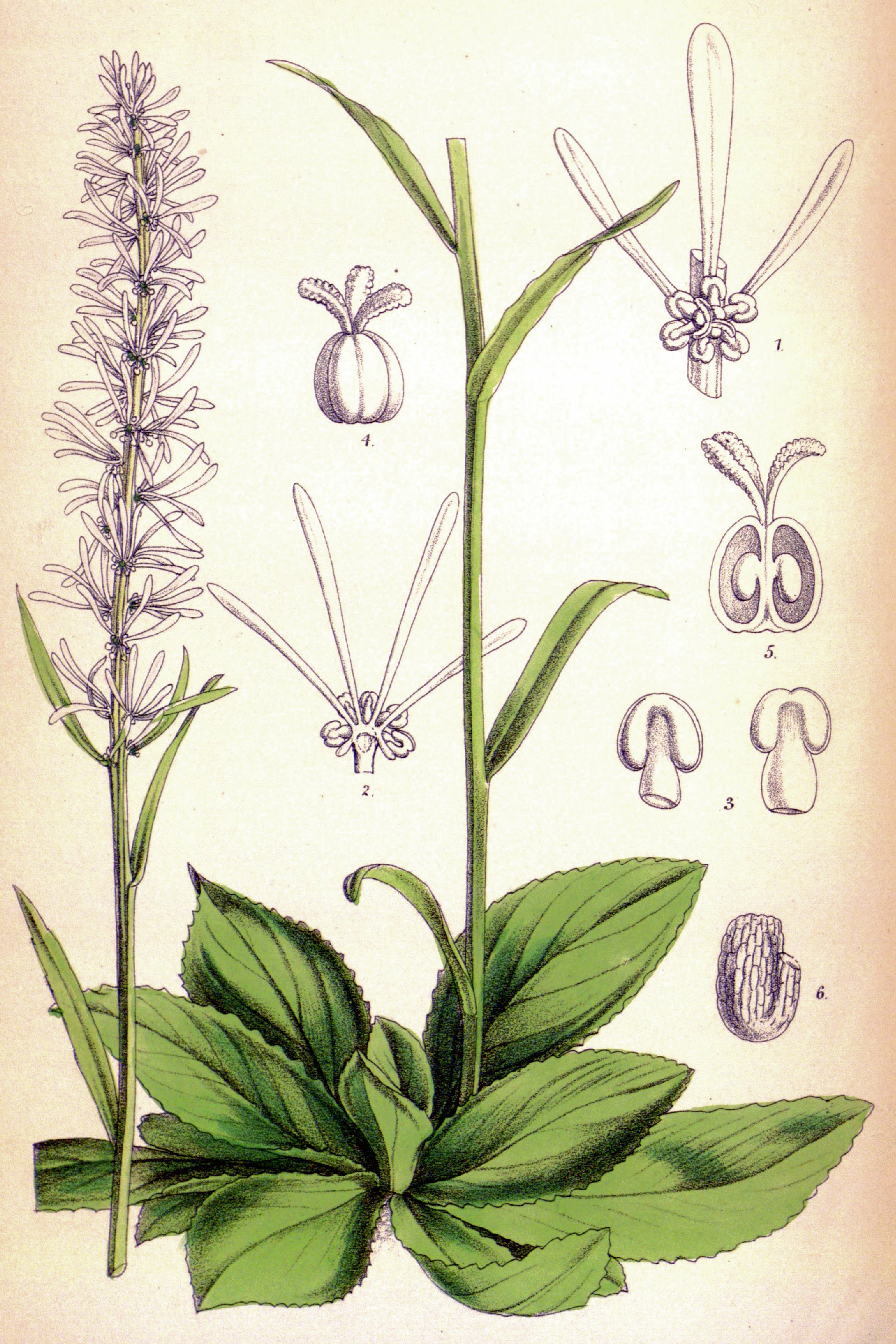 Chionographis japonica